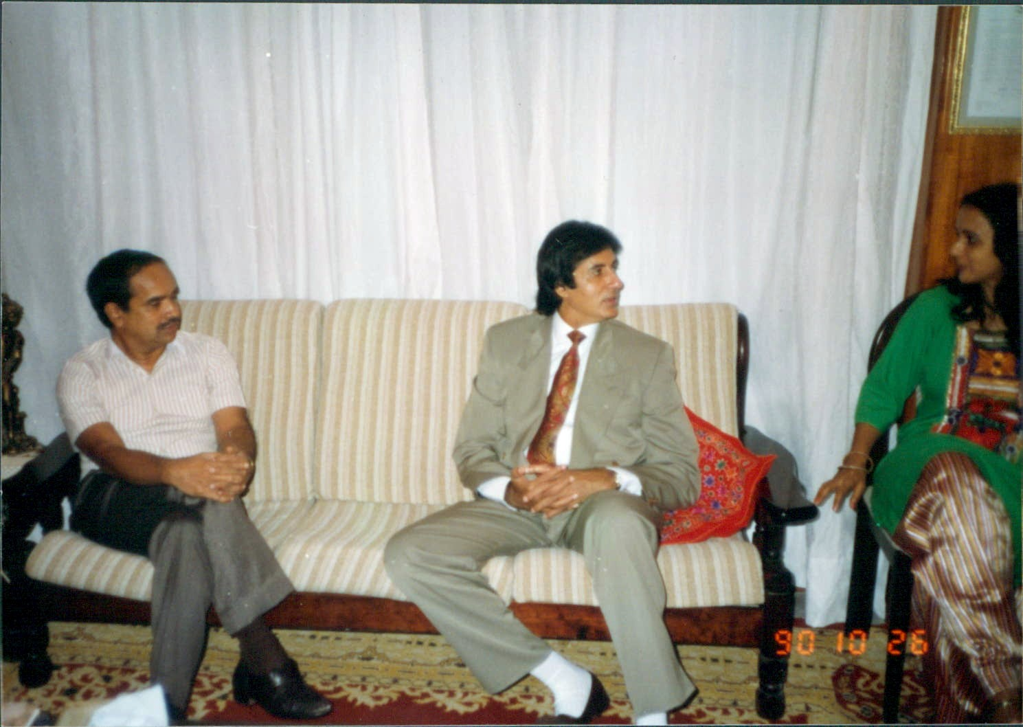 With Bollywood Superstar Amitabh Bachchan, In Maldives